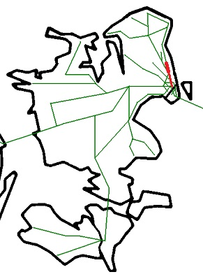 Map of railways on Zealand (Sjælland) in Denmark with the state railway Klampenborgbanen between Copenhagen and Klampenborg in red.